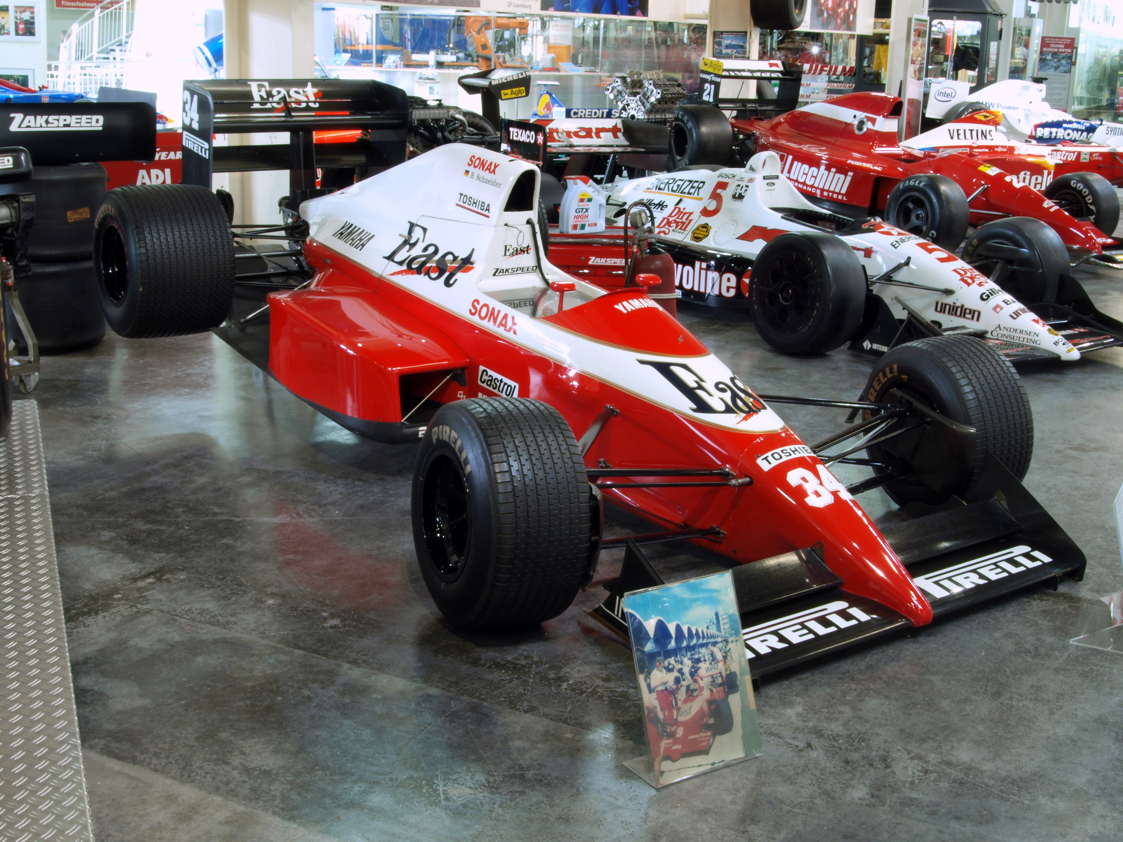 Photographed at the Auto & Technic museum Sinsheim.